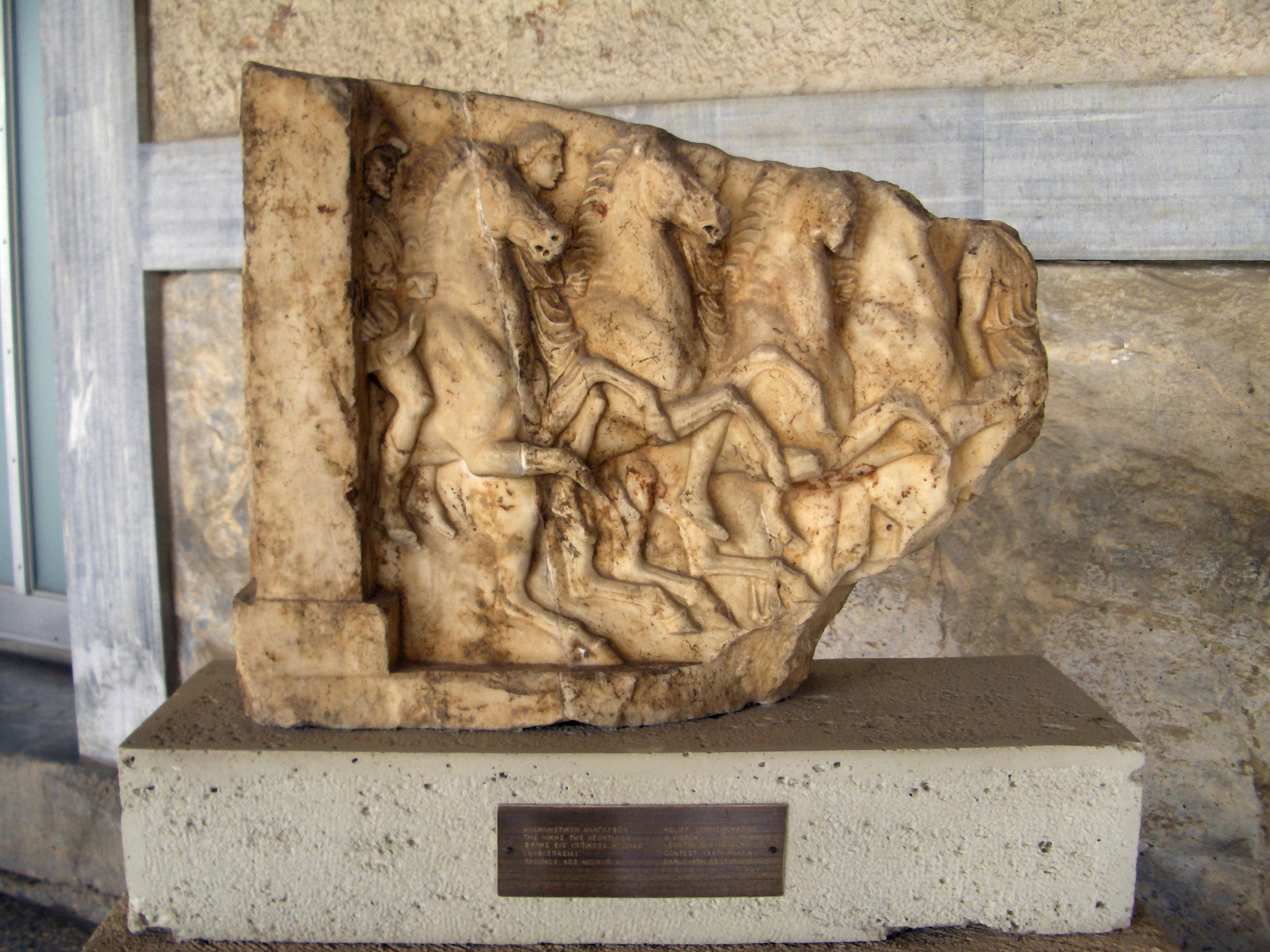 Relief commemorating the victory of the Athenian tribe Leontis in a cavalry contest. 4th century BC. Exhibited along the portico of the Stoa of Attalus, which houses the Ancient Agora Museum in Athens.